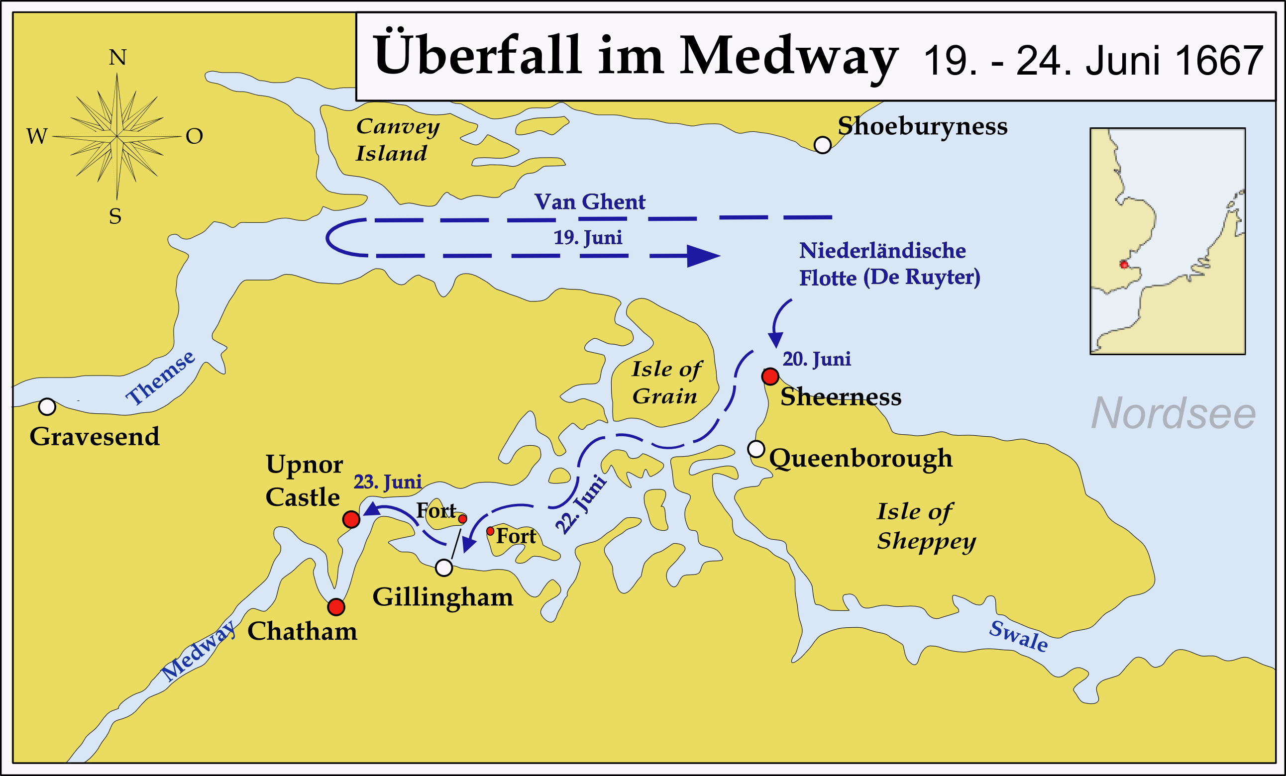 Map showing the Dutch raid on the Medway in 1667